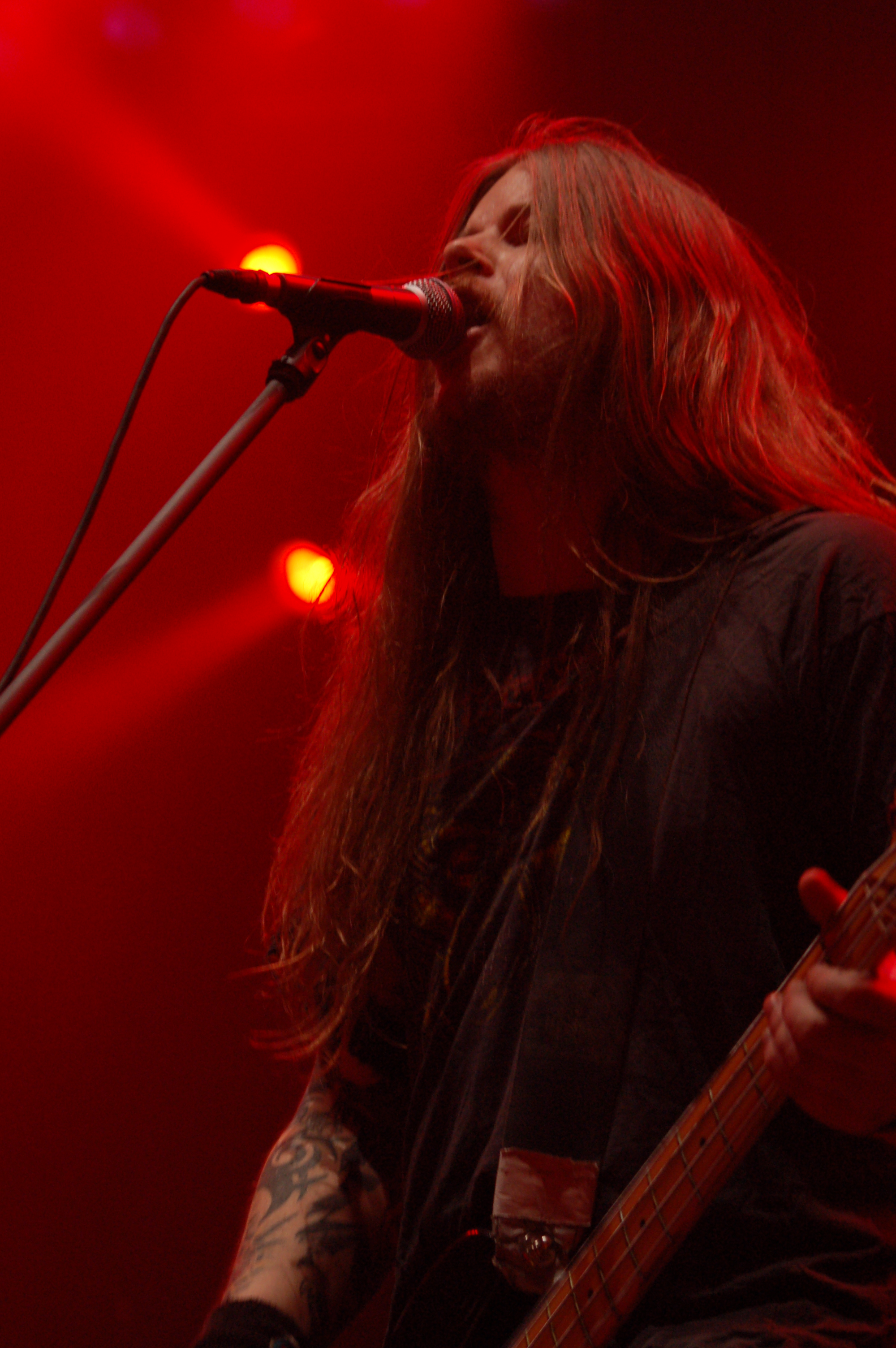 Nico Elgstrand from Entombed during Metalmania 2007 festival